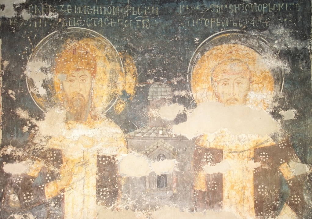 Stefan Dečanski and Dušan with church model, fresco from Visoki Dečani,Serbia.